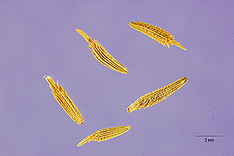 Taraxacum kok-saghyz Pollen